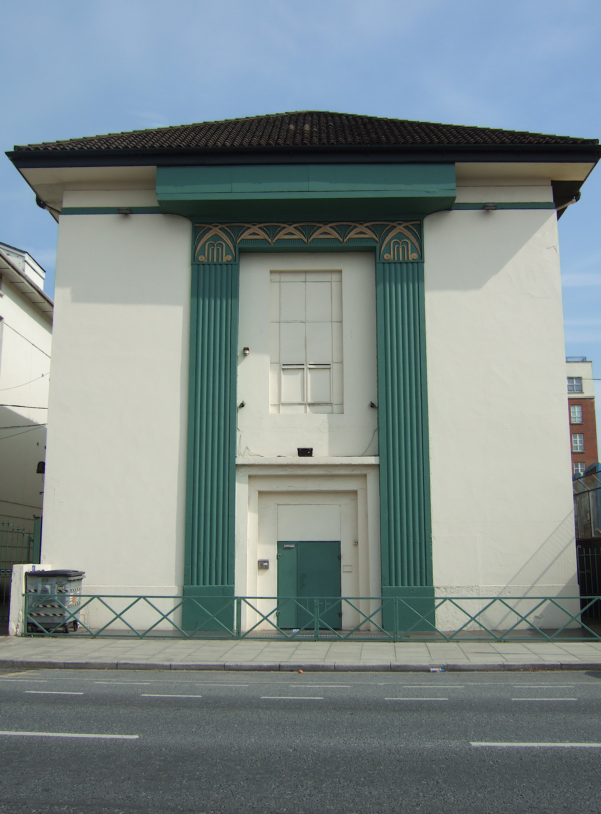 The new Windmill Lane Studios in Dublin